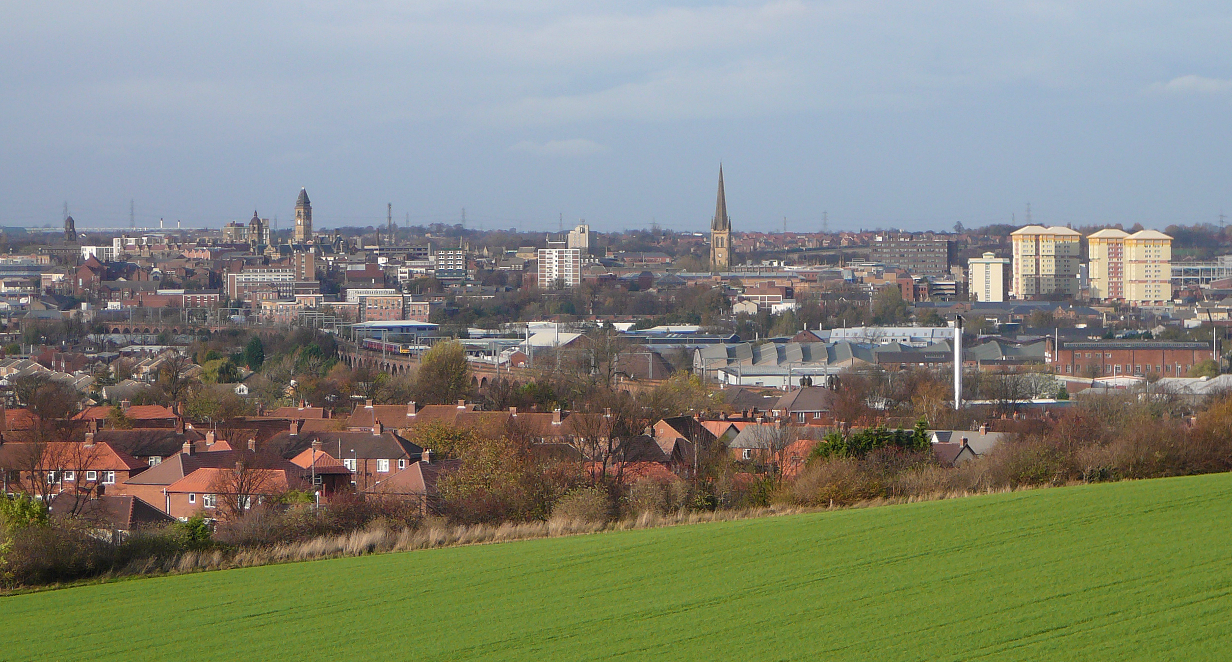 Wakefield view from The Sandal Castle. The towers of The Wakefield Cathedral and The Town Hall are clearly visible.